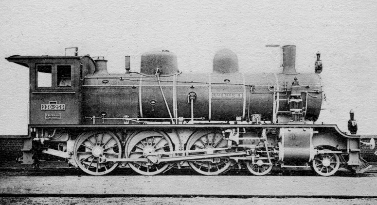 CFAE 230 259 (Fives-Lille n° 4033/1914) ; later part of the CFA class 230 D 243 to 267.